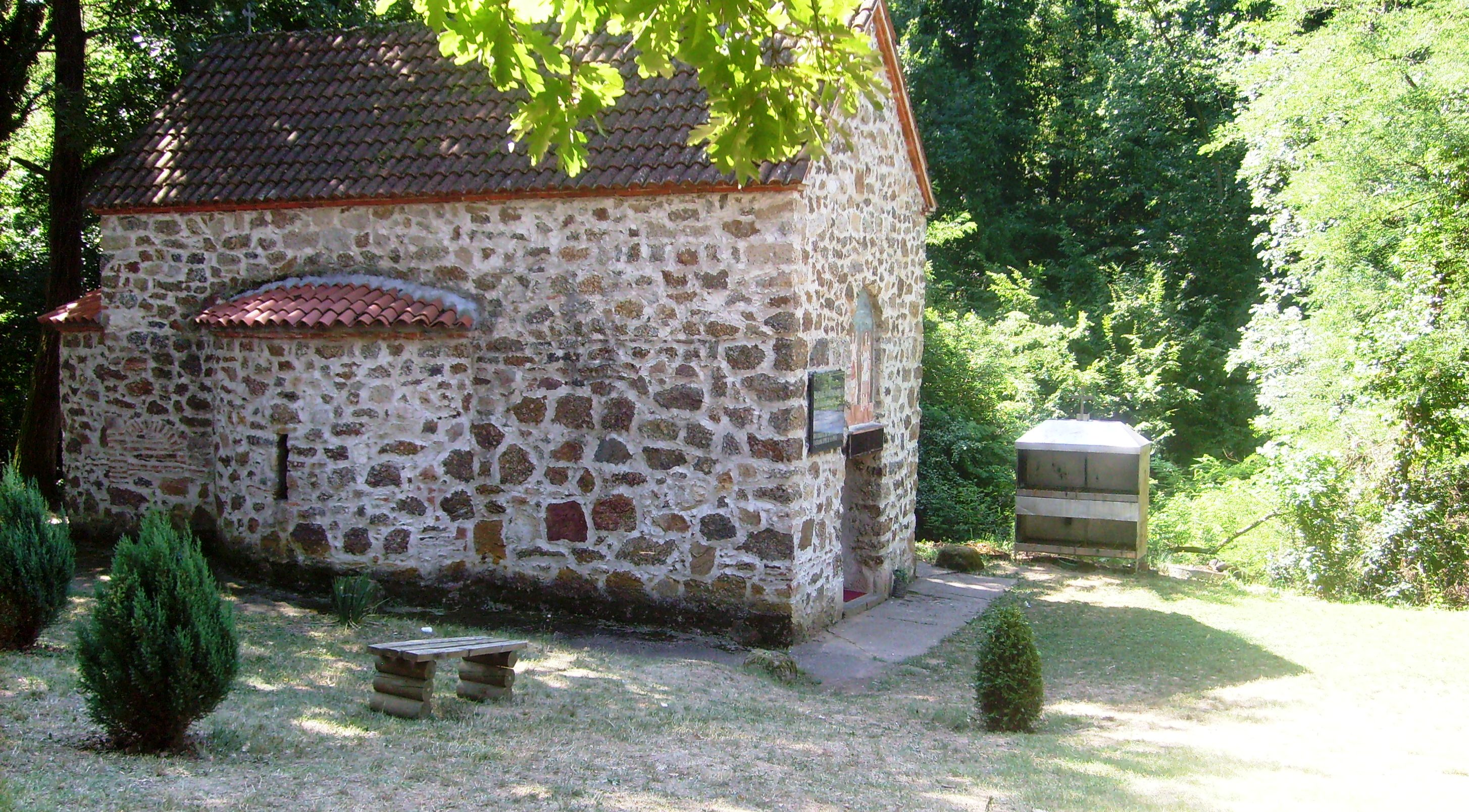 Temple Sv Arhangel of Stalacu